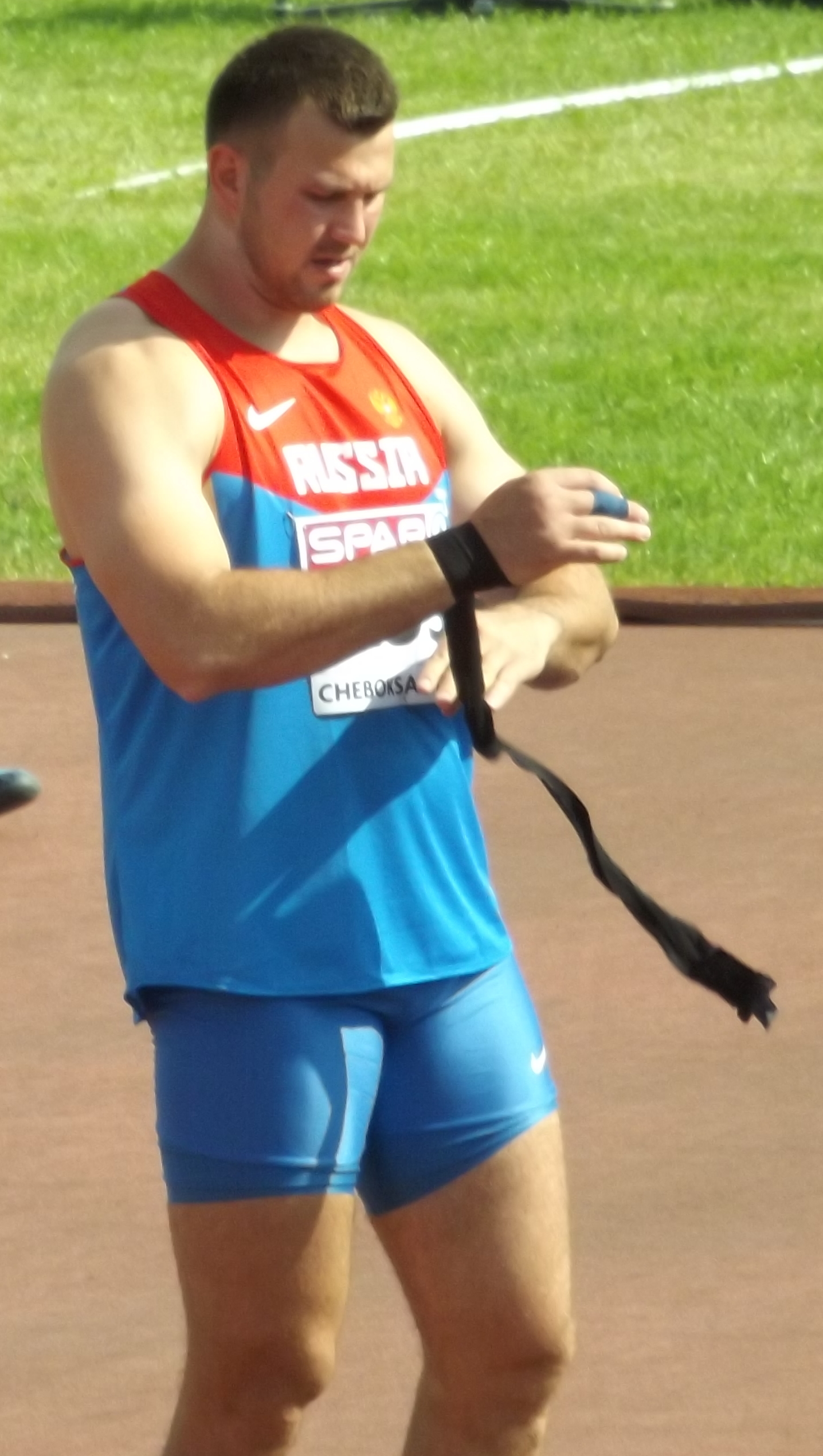 Russian shot putter Aleksandr Lesnoy during 2015 European Team Champioships